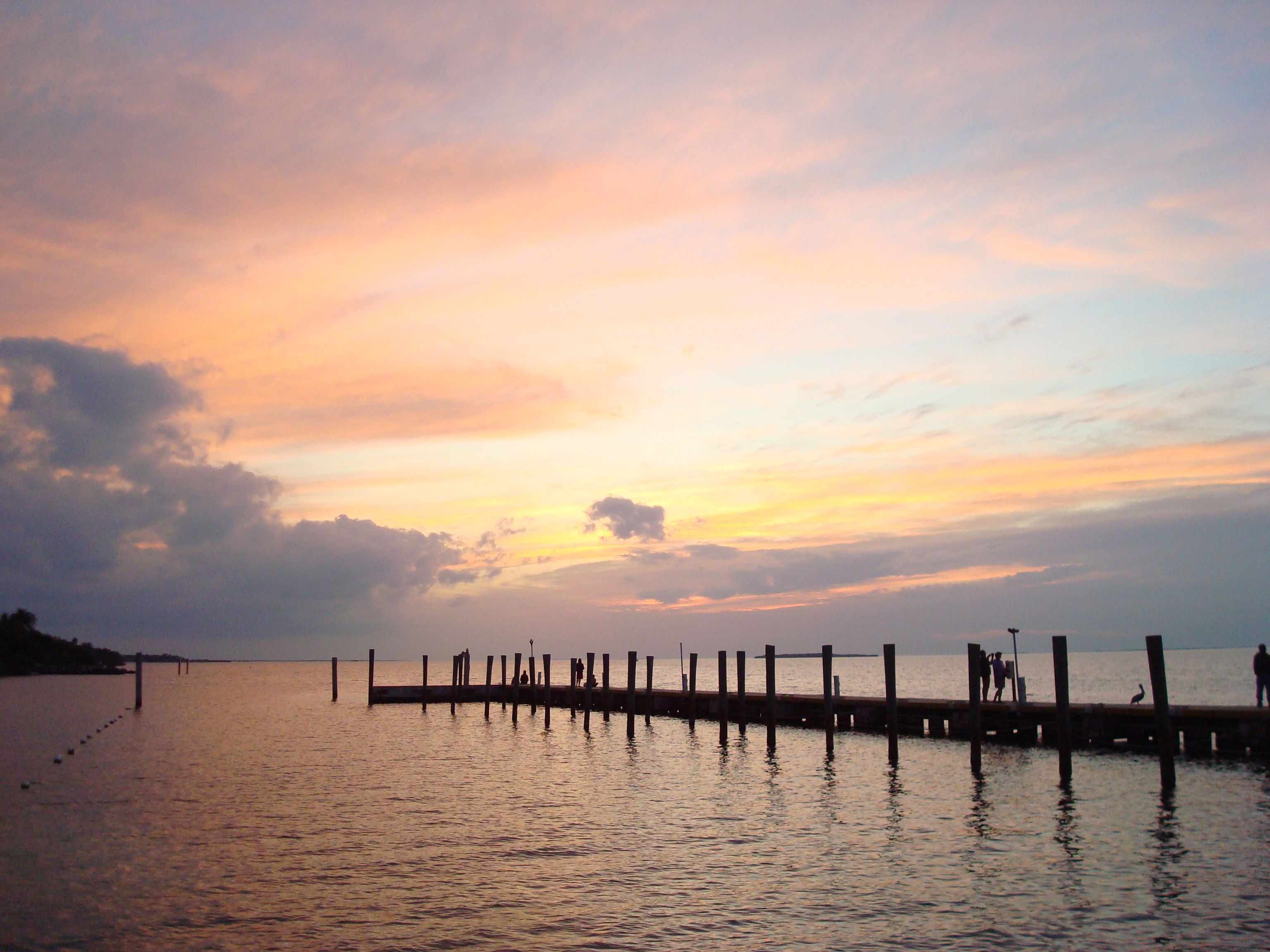 Picture was taken in Key Largo near Hilton on a beautiful December evening